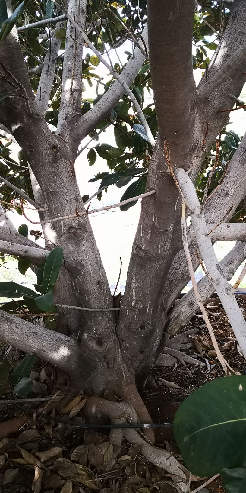 Ficus velutina – Stem & bark. February 2020. Location: Palmetum, Santa Cruz de Tenerife, Canary Islands. Spain. 28,453, -16,258